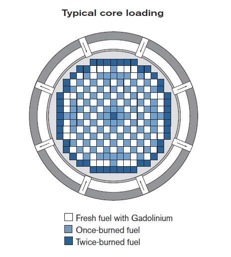 Typical core loading of Areva's EPR